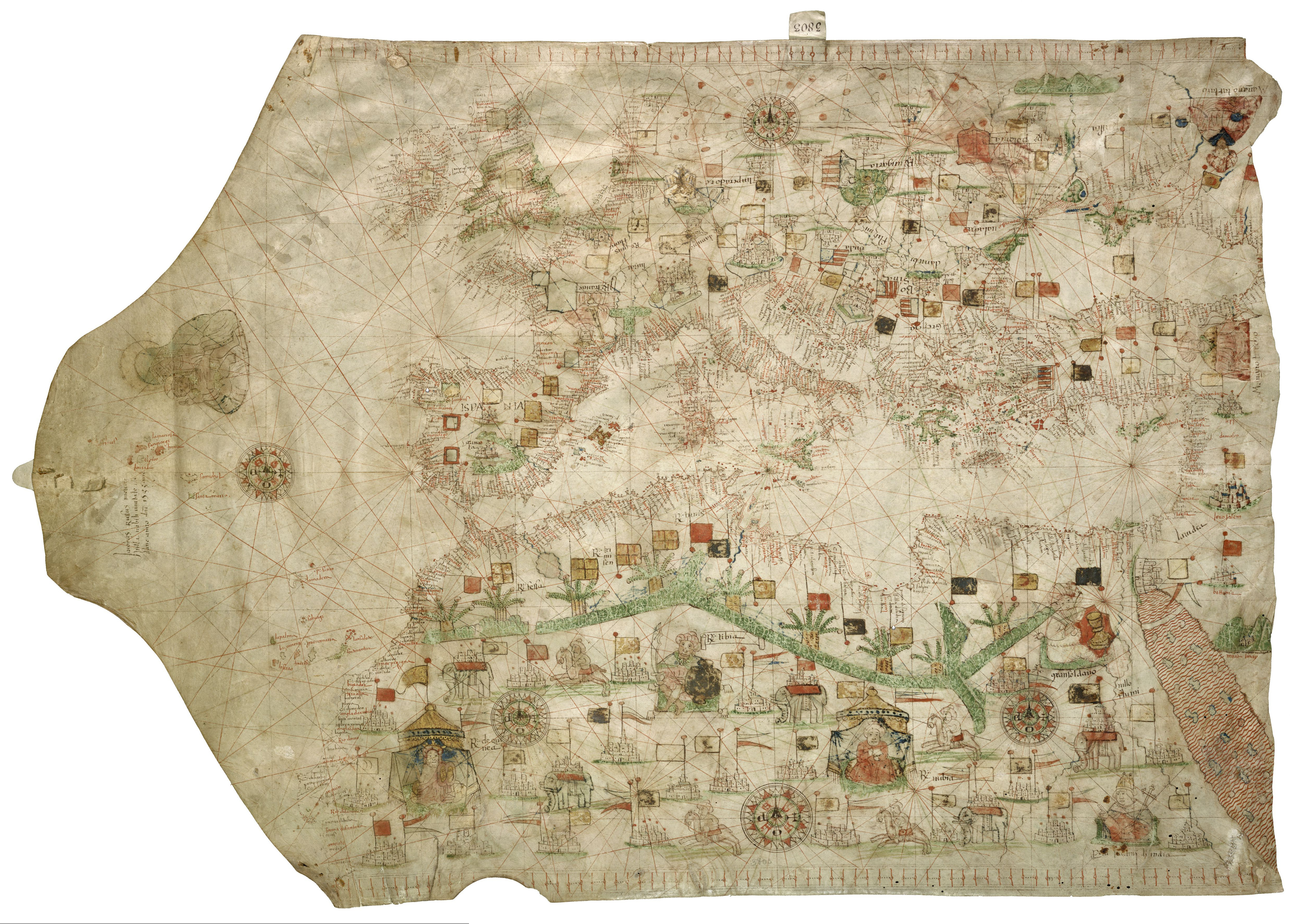 Manuscript on vellum. A portolan chart by Jacobo Russo (Giacomo Russo) of Messina.